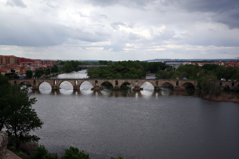 Douro river in ZamoraEsperanto: Rivero Doŭro en Zamoro